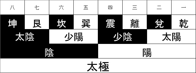 Mono-, Di- and Trigrams as from Zhū Xī (朱熹) in Zhōuyì zhèngyì (周易正義) white square means and black square means